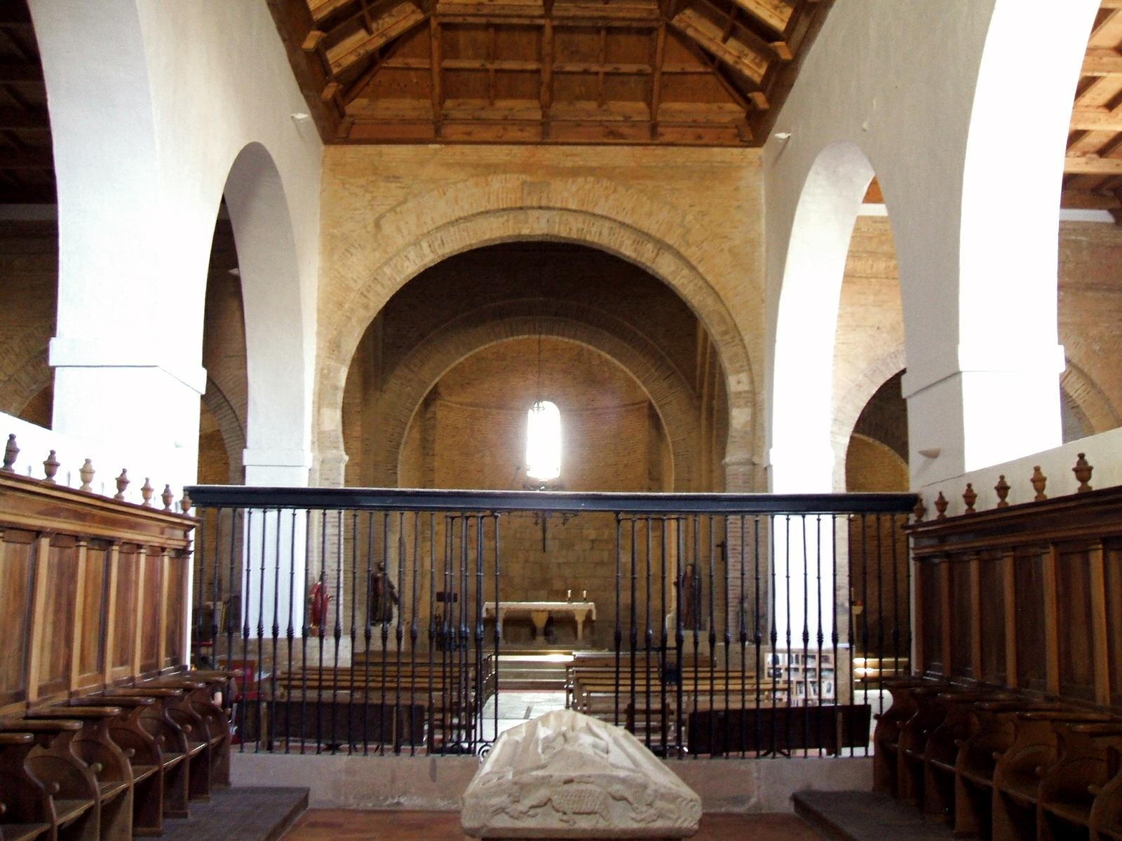 Iglesia de San Tirso, Sahagún (León, España)